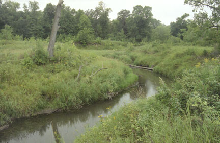 Photograph by . The Tongue River in Icelandic State Park, Pembina County, 23 August 2004.